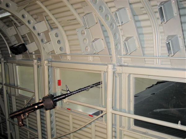 Research images inside a Ju-52 showing the MG-15 in its left side beam position, and above it storage brackets for 12 MG-15 magazines, with one magazine mounted. Please contact me for additional images of this subject.